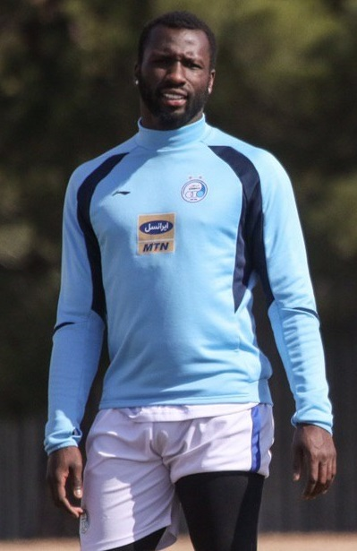 Esmaël Gonçalves